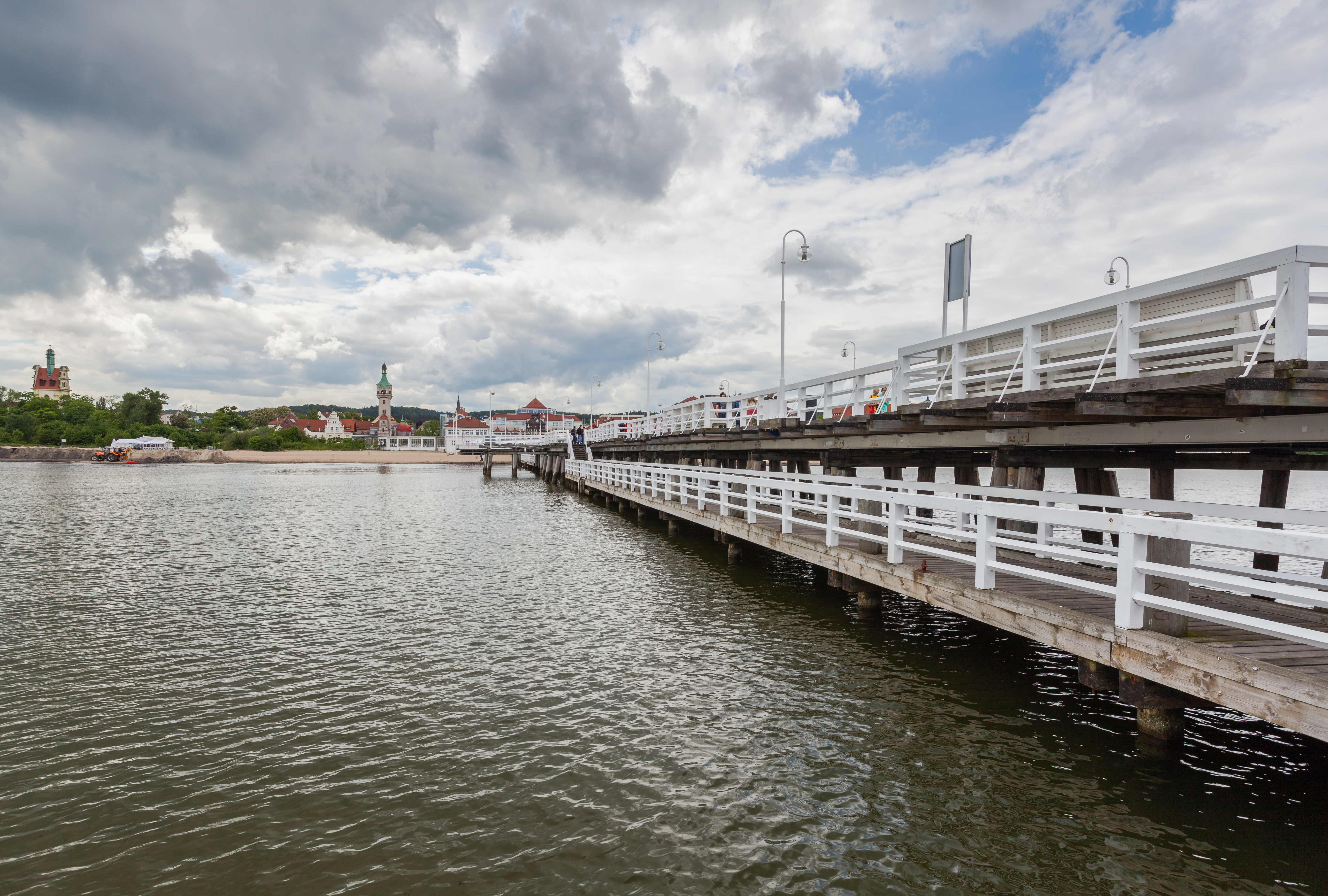 Promenade pier of Sopot, Poland